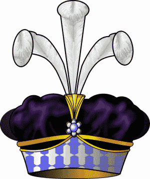 Baron of Empire